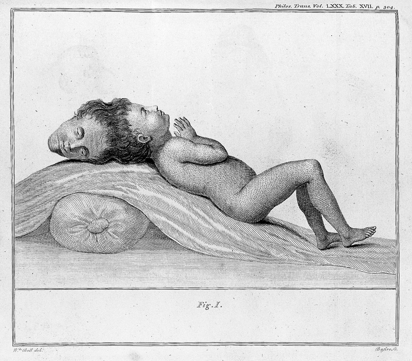 Child with double head lying on his back. Rare Books Keywords: CONJOINED TWINS; Twins, Conjoined